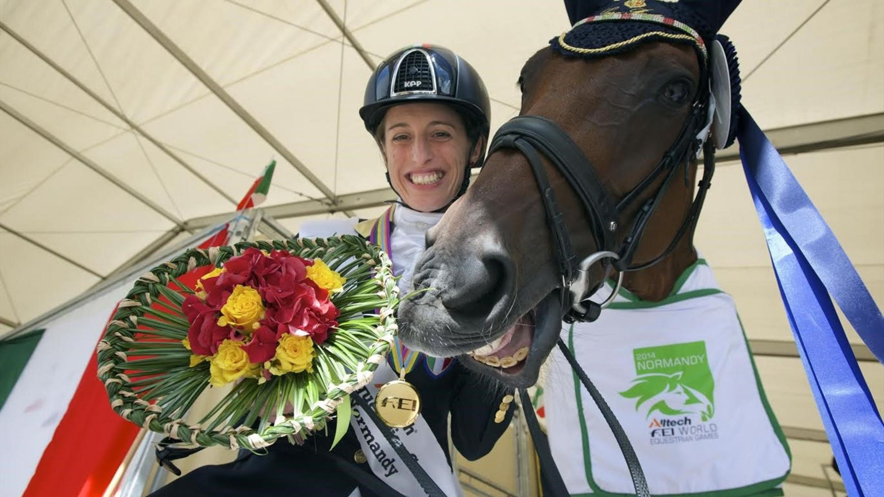 Atlete of the month sept 2014 ipc